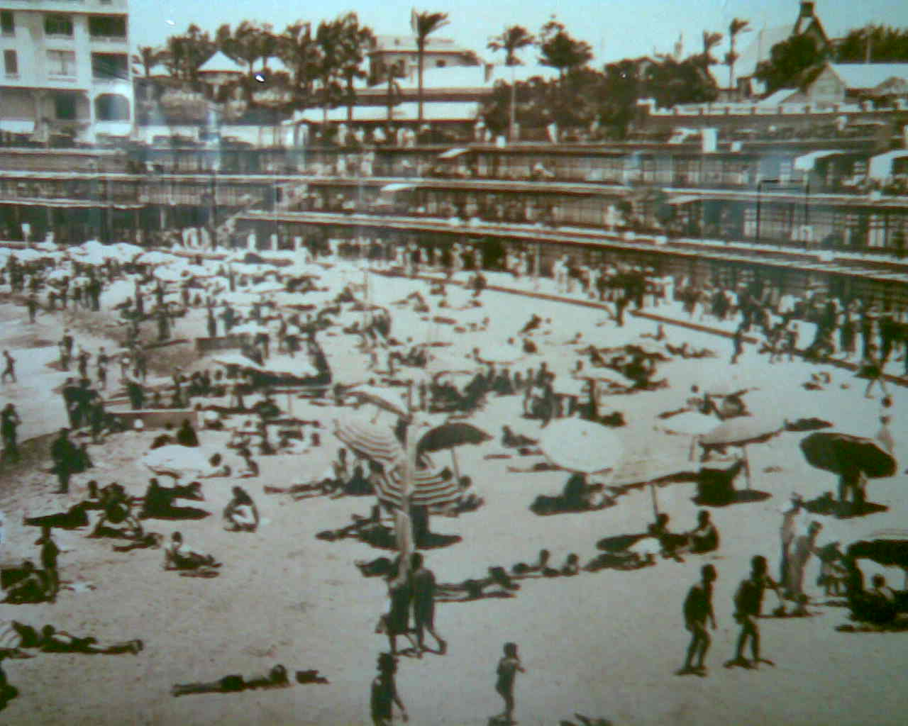 View of Stanley Beach, Three levels of beach cabins located to the rear of beach. (In this photo:appears the summer visitors in the mid-20th century.